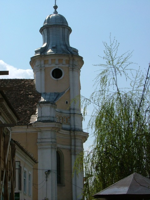 Transfiguration Cathedral in Cluj-Napoca, Romania